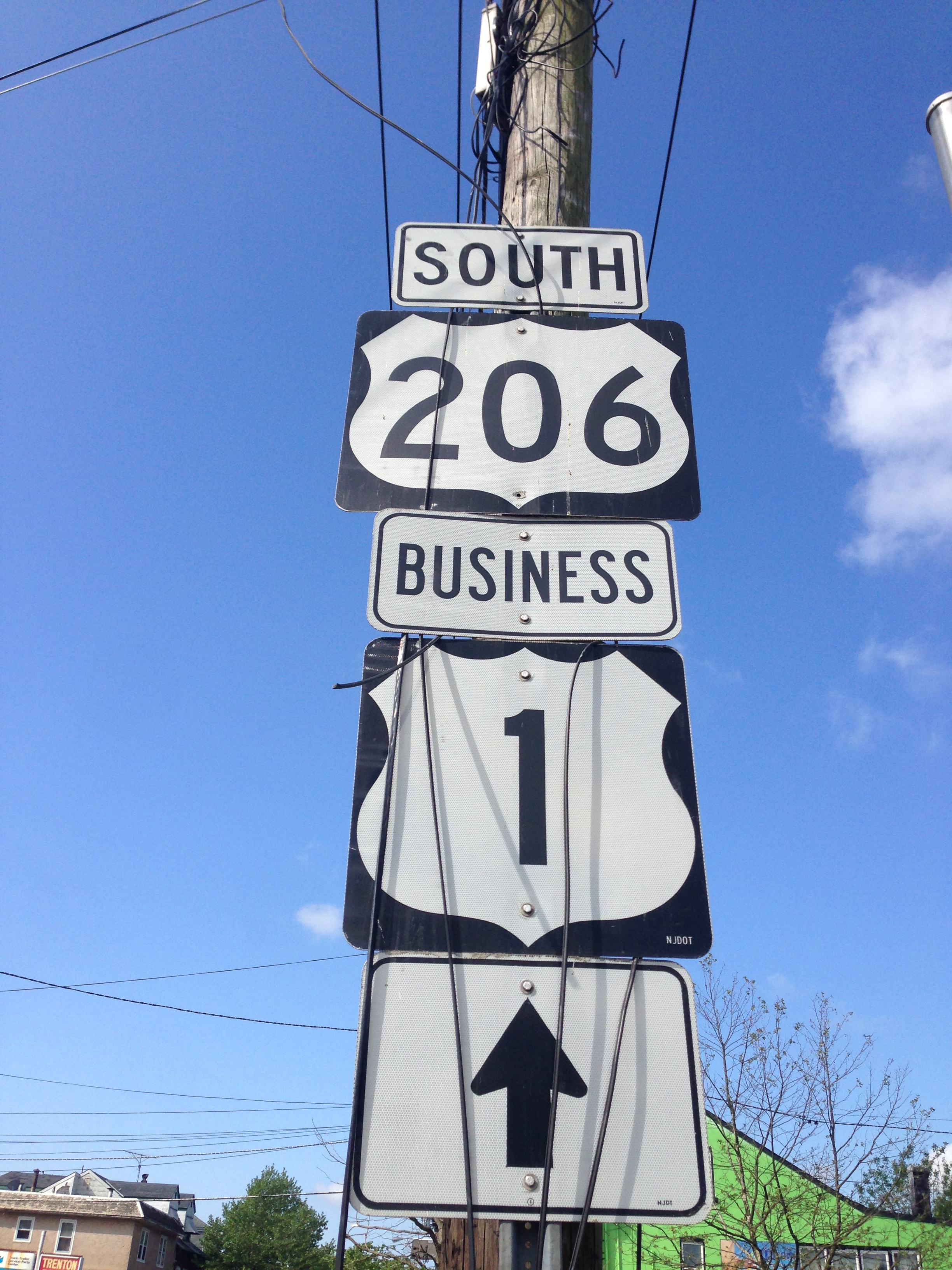 Signs for U.S. Route 206 and U.S. Route 1 Business along MLK Jr Boulevard in Trenton, Mercer County, New Jersey